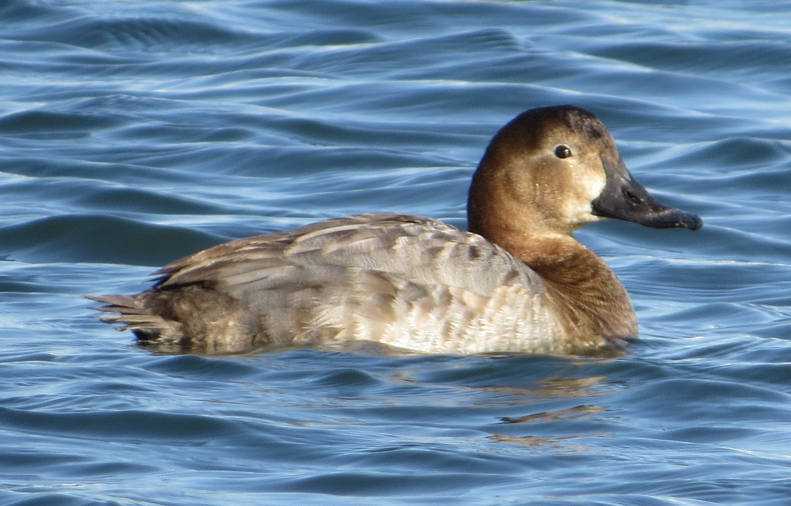 Common Pochard (Aythya ferina (Linnaeus, 1758) ), female, in Mie prefecture, Japan.